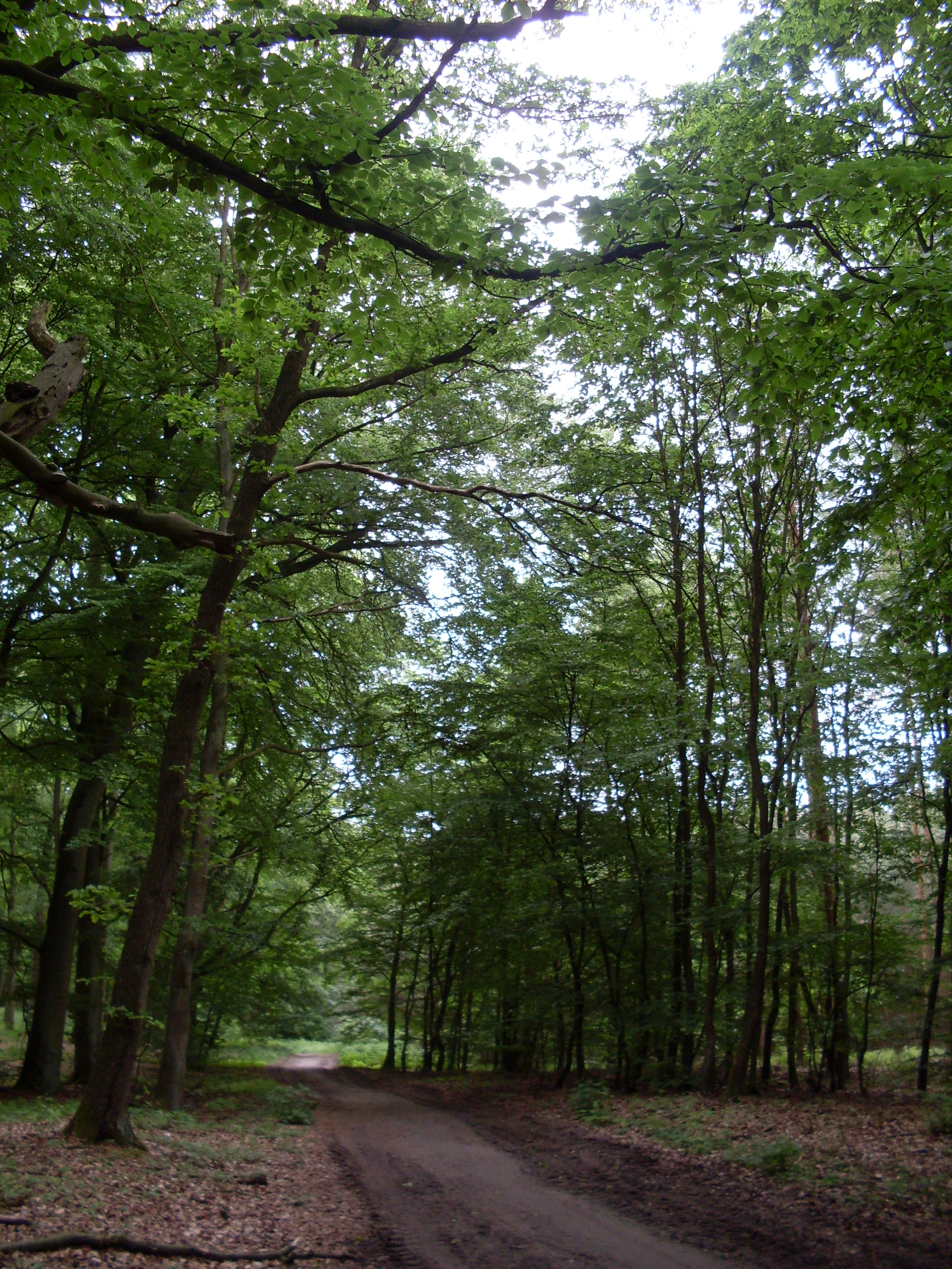 Wkrzańska Forest near Siedlice